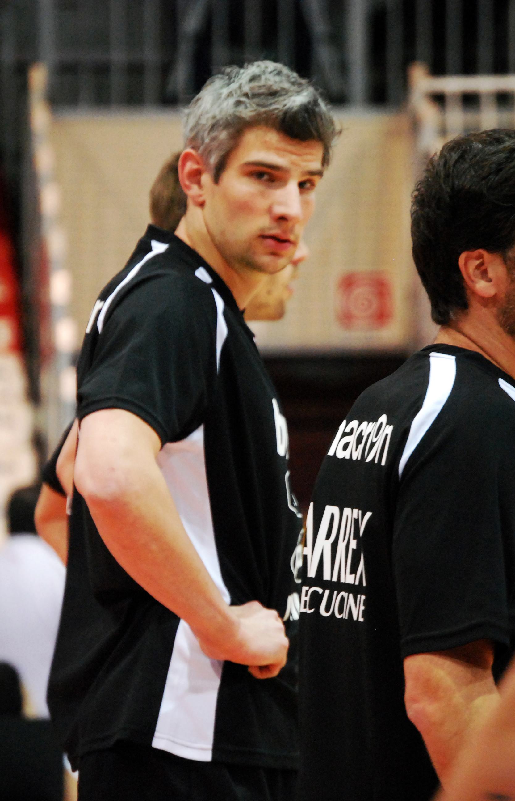 I took this photo during a volleyball match in Piacenza